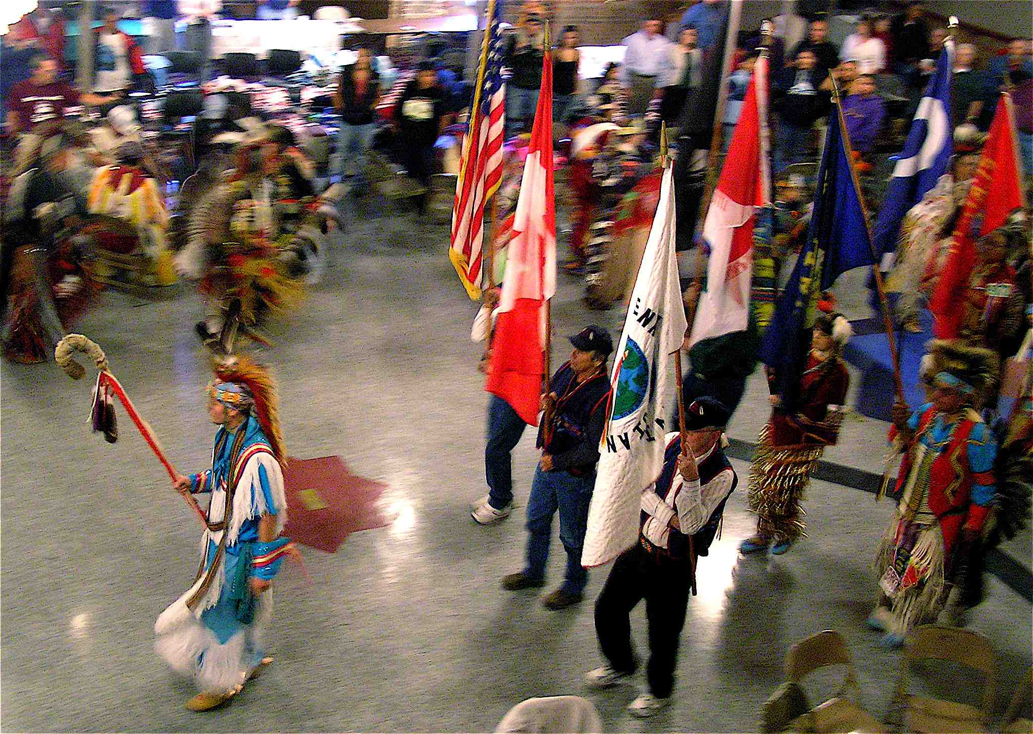 Image from Last Chance Community Pow Wow 2007, Helena, Montana. Grand entry, note the spiritual significance of the Eagle Staff; it precedes the flags.